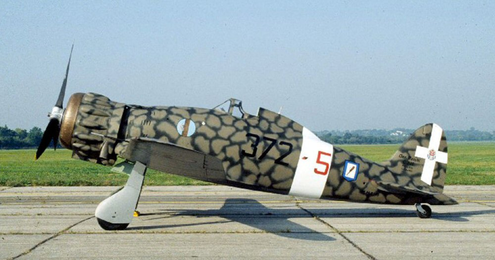 Macchi MC-200 Saetta DAYTON, Ohio – Macchi MC-200 Saetta at the National Museum of the United States Air Force